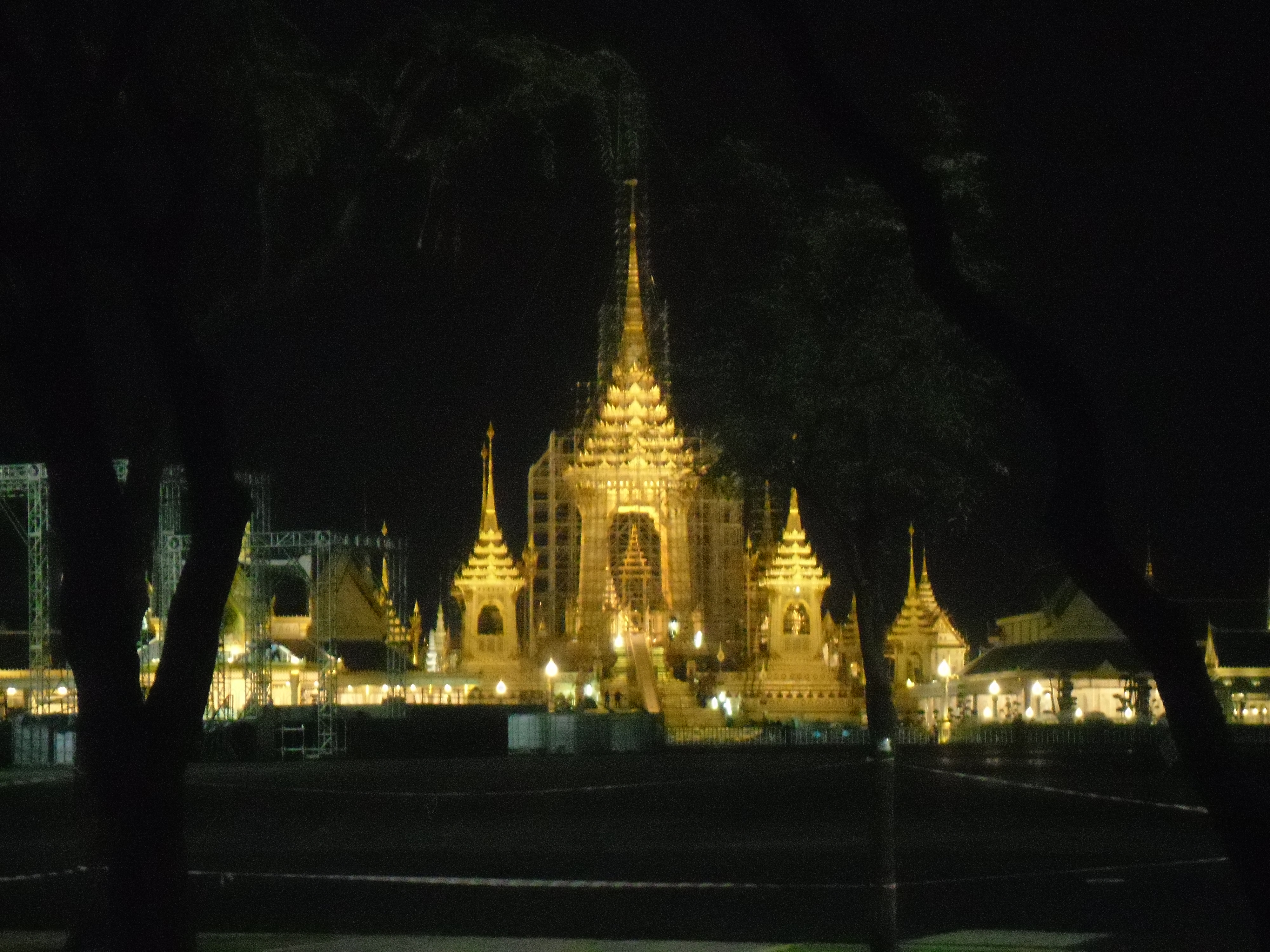 Royal crematorium of Bhumibol Adulyadej, as seen on October 09, 2017.